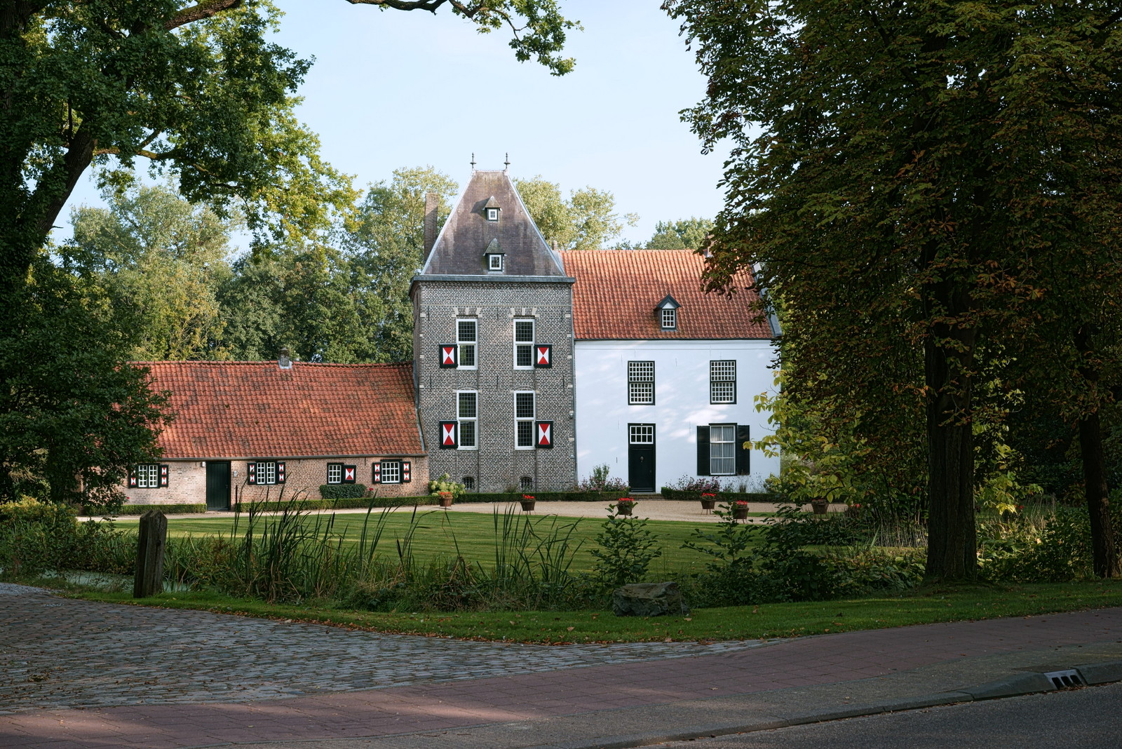 The Little Castle Deurne Netherlands - Het Klein Kasteel Deurne Nederland